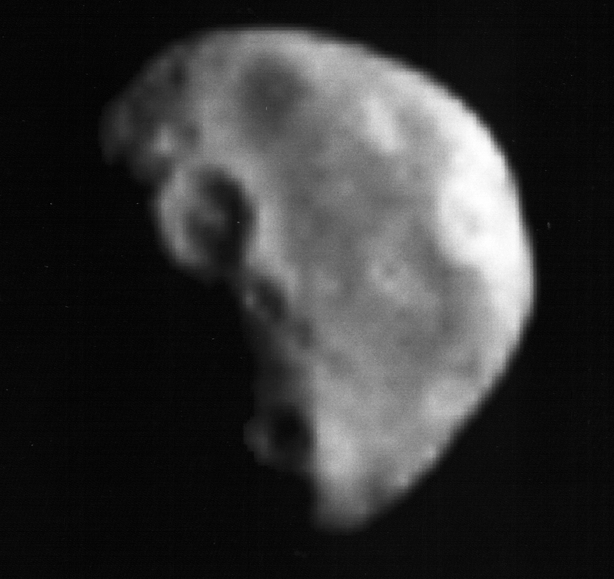 Galileo highest-res image asteroid Ida's moon (See below for details).